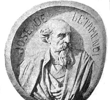 Josep de Letamendi i de Manjarrés, by J. Montserrat (Barcelona cómica del 20.10.1894)